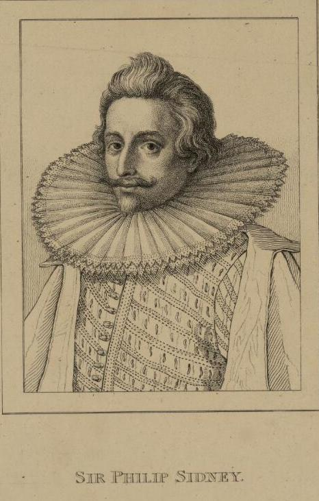 A portrait from the Welsh Portrait Collection at the National Library of Wales. Depicted person: Philip Sidney – English poet, courtier, diplomat